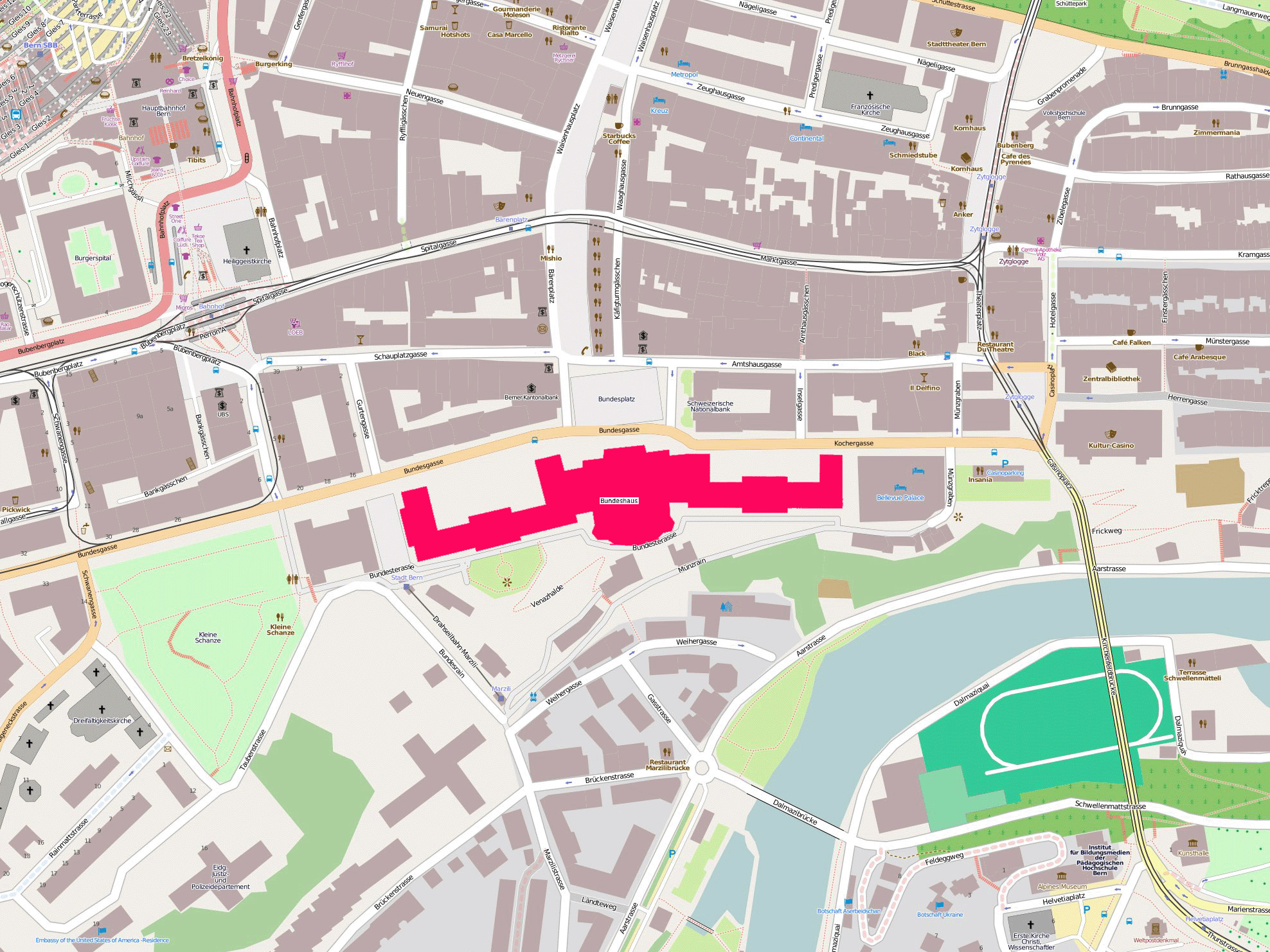 Map of the city centre of Bern from the OpenStreetMap project, the Federal Palace is highlighted in red